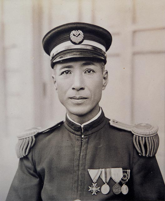 小島猛, an officer in the Japanese-ruled Taiwan notice that the romanization of the name is just a "reverse-transliteration" from Kanji, it may have alternative readings source: [1]